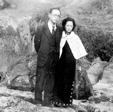 周有光（1906年1月13日－），原名周耀平，生于中國江苏常州，中国语言学家、文字学家，通晓汉、英、法、日四种语言。中国语言学家。此图是1938年，周有光和妻子张允和的合照。